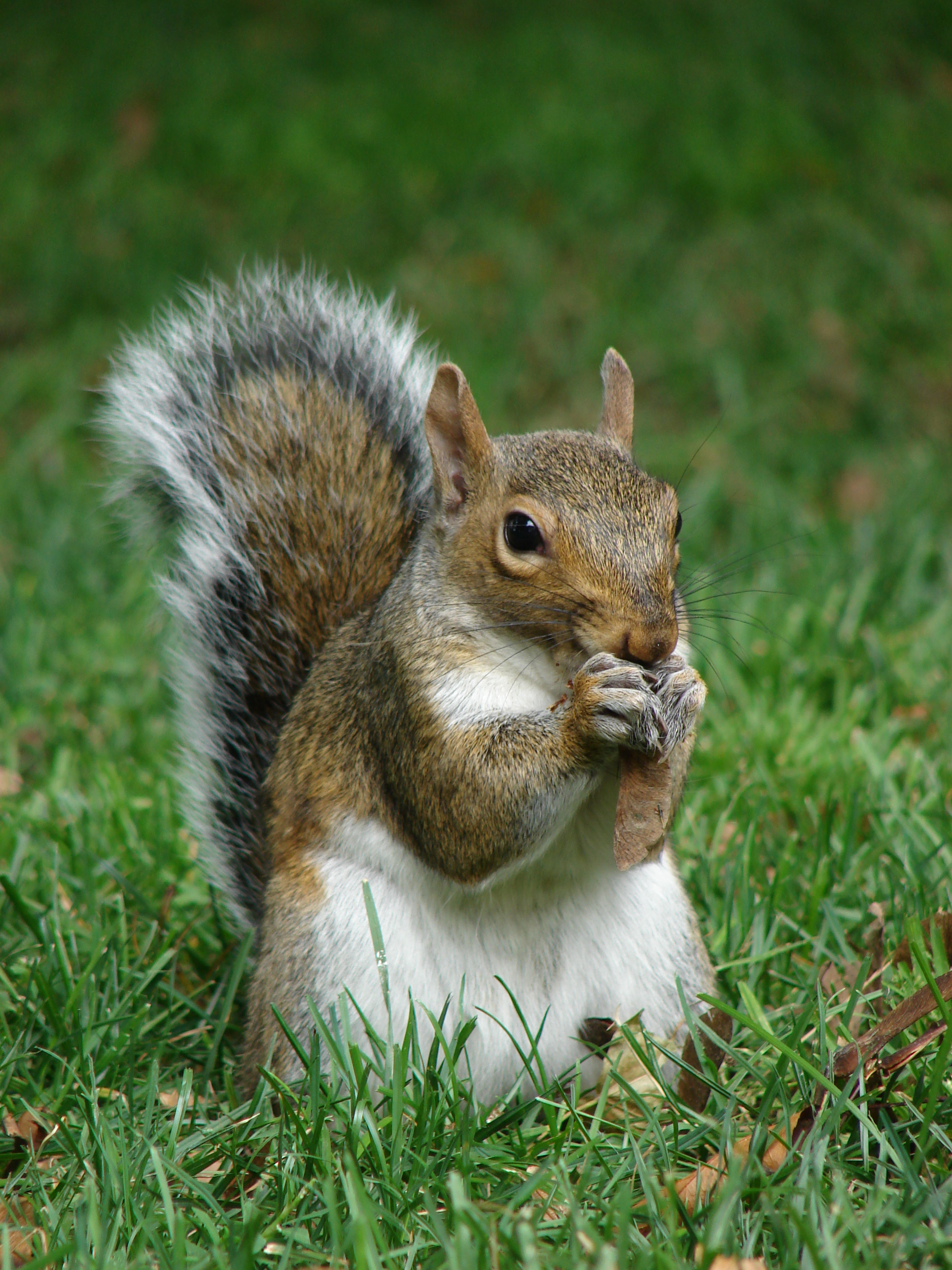 Gray squirrel (Sciurus carolinensis) with maple tree seed in the Public Garden, Boston, MA on September 9th 2010.